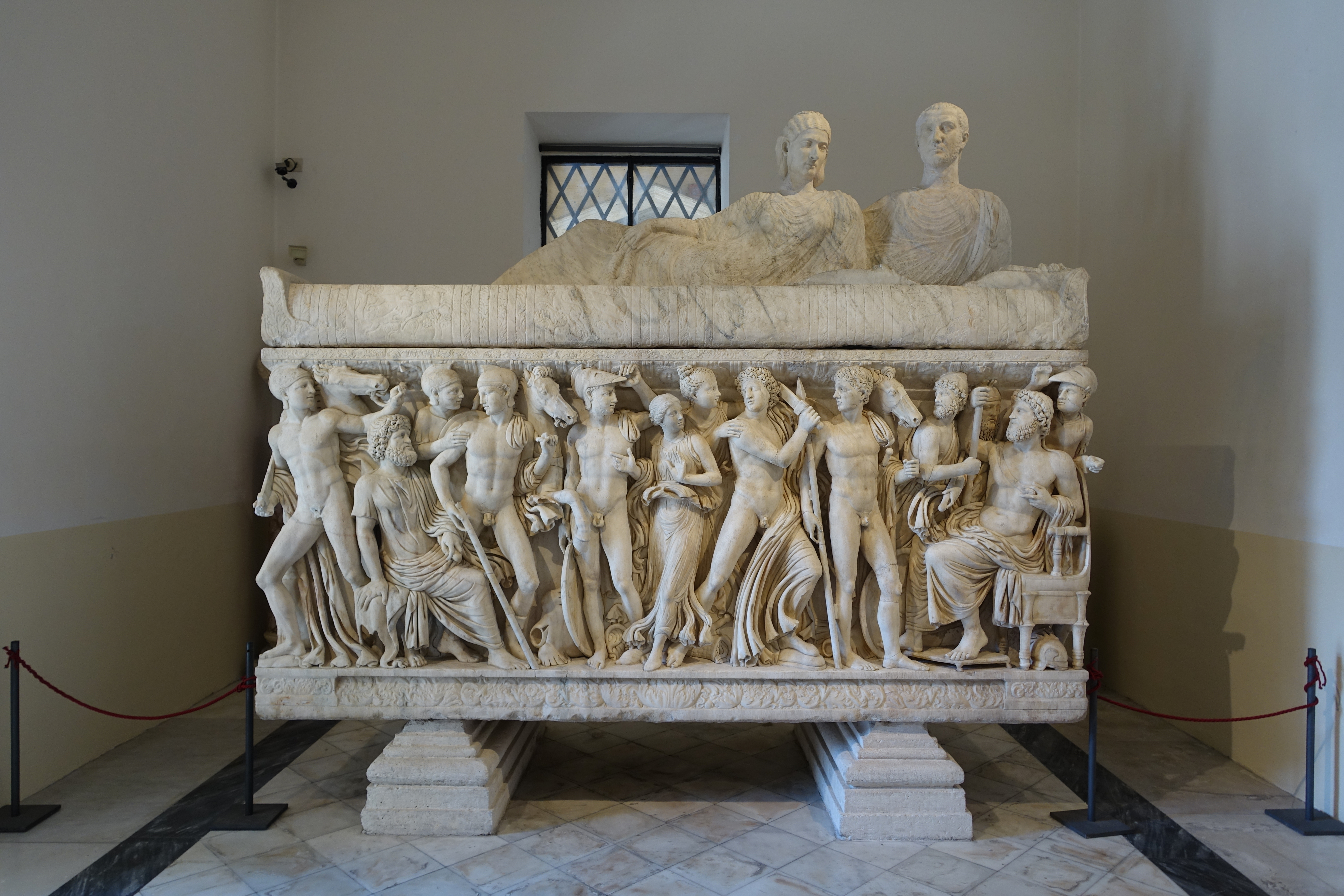 Exhibit in the Musei Capitolini - Rome, Italy.